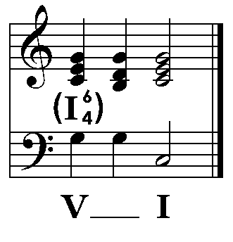 Illustration of cadential 6/4, modified after Walter Piston's example showing two alternative analyses.